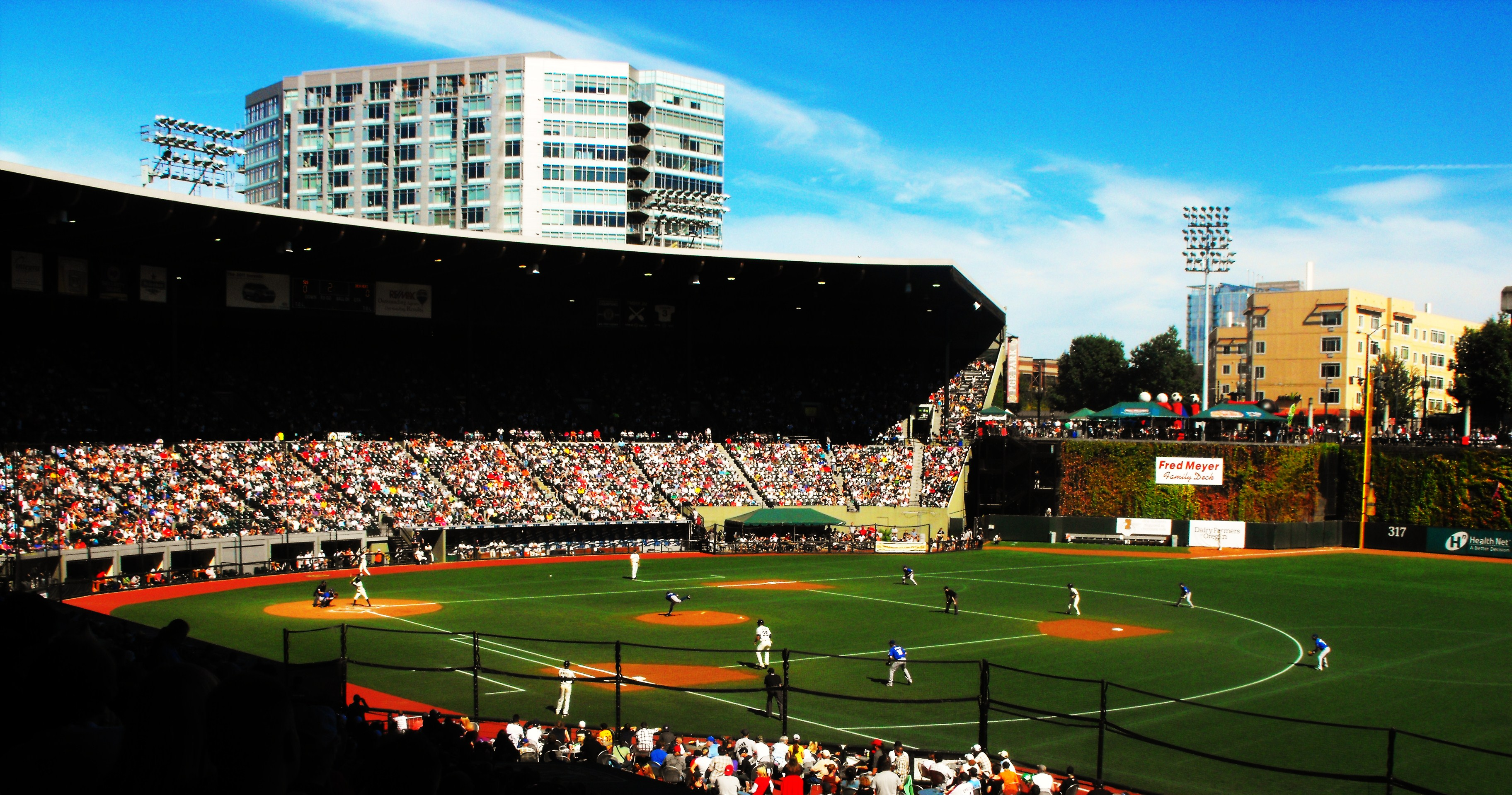 A Portland Beavers game at PGE Park on the last day of the 2010 regular season.